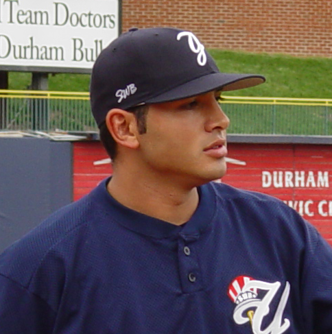 Description New York Yankees pitcher Jeff Marquez LocationDurham Bulls Athletic Park, Durham, North CarolinaDate14 April 2008SourceOwn workAuthorBrad E. Williams (talk) 23:59, 14 April 2008 . . Brad E. Williams . . 484×487 (331 KB) New York Yankees pitcher Jeff Marquez